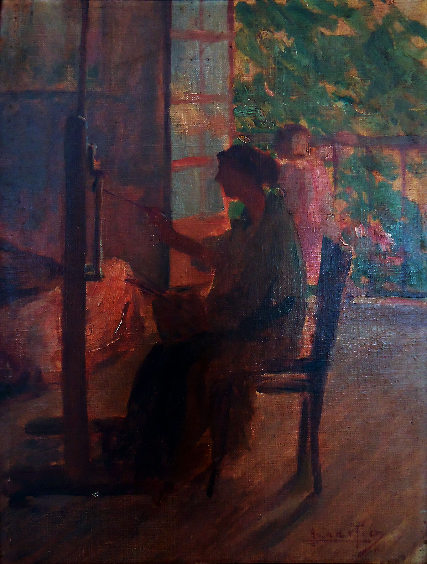 Lucílio de Albuquerque (1877-1939) Georgina de Albuquerque (Lucílio's wife) painting, oil on canvas on wood, 30,9 x 21,7 cm, probably 1910-20. With the label and published as Lot number 222, Auction's Catalogue of Renato Magalhães Gouvêa, Escritório de Arte, São Paulo, Venda N.40, September 1995. Private Collection. Photo Gedley Belchior Braga.